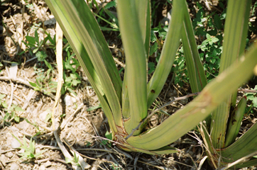 This is an image of the plant Oldupaai or Sansevieria ehrenbergii in northern Tanzania. The photograph was taken in late February 2006.